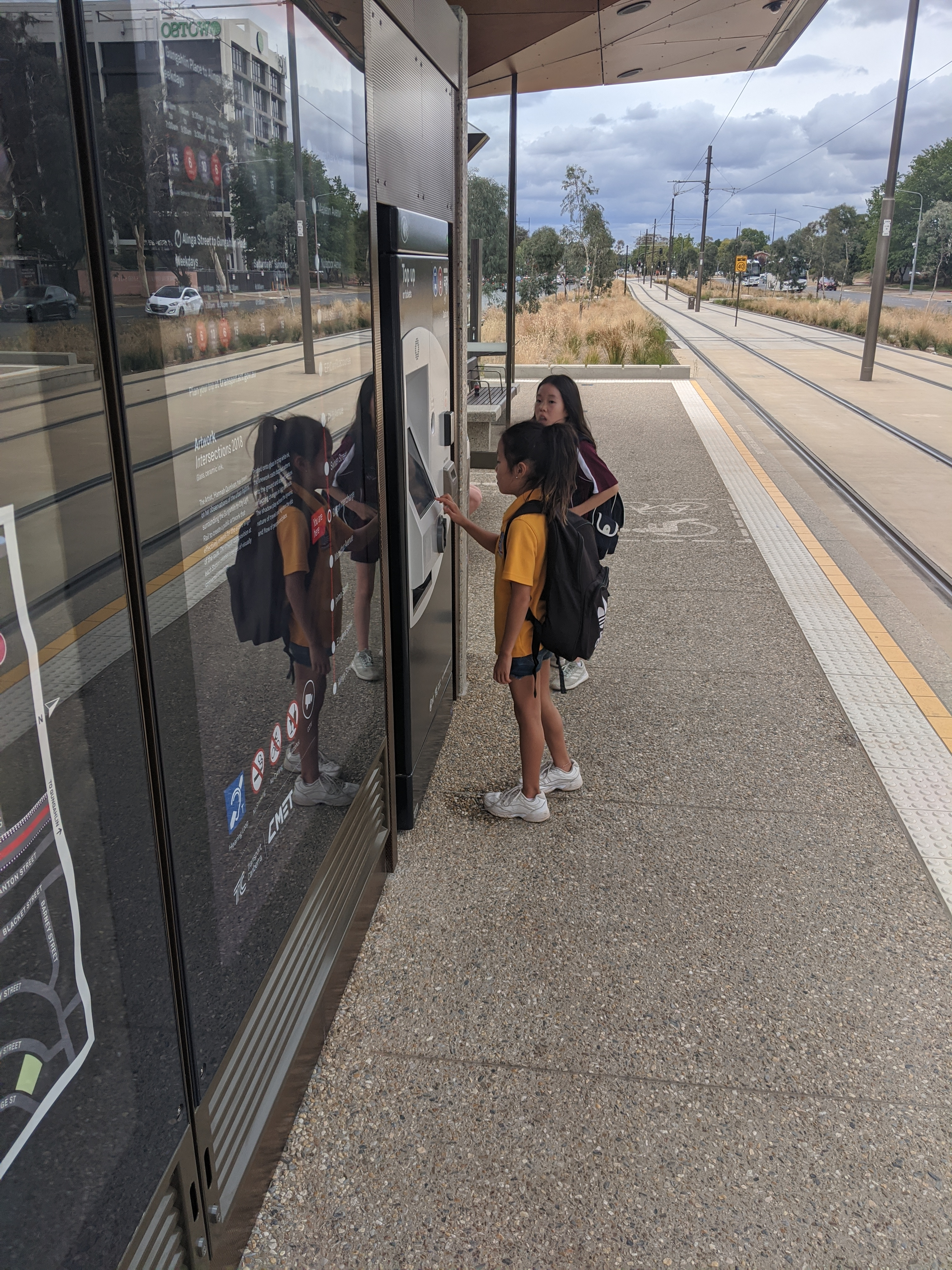 Tots using ticket machine at Dickson Interchange light rail stop, Canberra, January 2020